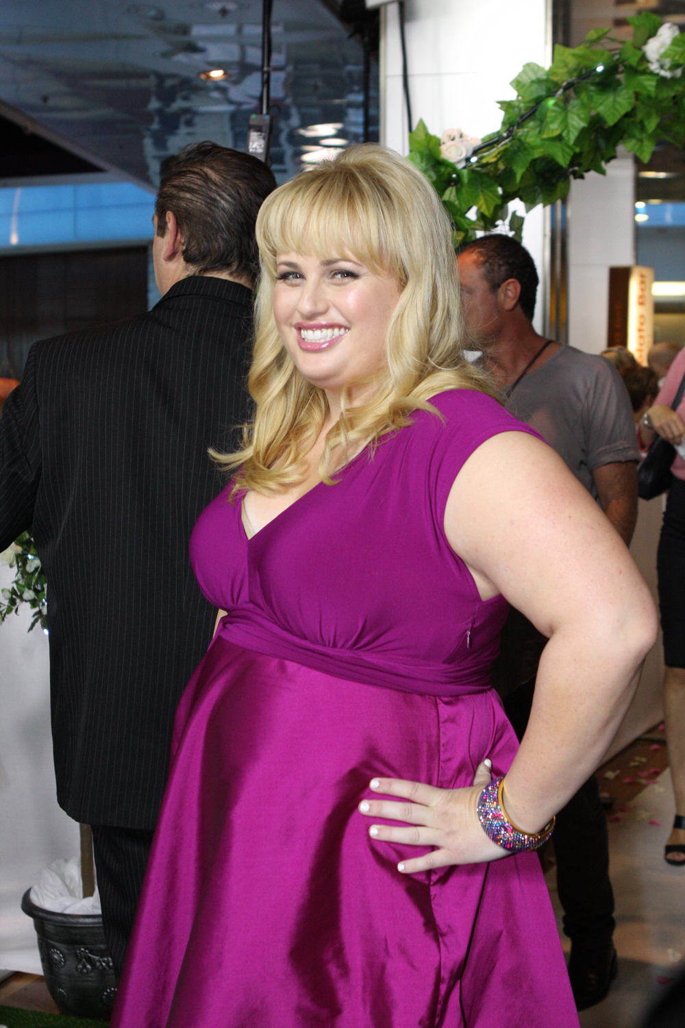 A Few Best Men Red Carpet Movie Premiere In Sydney, Australia A Few Best Men enjoyed its Sydney red carpet premiere earlier this evening at Bondi Junction's Event Cinema. In essence, it's a a comedy about a groom and his three best men who travel to the Australian outback for a wedding. The flick has numerous Sydney based media men and women tipping that this may be just the start of a reinvigoration of Olivia Newton-John's acting career, but its really too early to know for sure. Maybe O-N-J and her agent know something we don't. Twilight Eclipse hunk Xavier Samuel stars as the film's hapless bridegroom. British thespians Kris Marshall (Death At A Funeral) Kevin Bishop (Spanish Apartment), and Australian comedy star Rebel Wilson was there, as was Laura Brent (Chronicles of Narnia), Steve Le Marquand (Beneath Hill 60) and Tangle actor Tim Draxl. Even local MP Malcolm Turnbull and wife Lucy showed up in support. The flick, which was filmed in Sydney and the Blue Mountains, is hoped to be a return to form for Elliott, who has had mixed success since his 1994 smash hit The Adventures of Priscilla: Queen of the Desert. It's quite an unlikely acting platform for Newton-John, who many film industry commentators say her last decent film role was alongside John Travolta in Two of a Kind back in 1983. Elliott told the media that the Aussie singer/actress has fitted in well with the rest of the cast. "She's great. Everyone's coming together really well and she's really getting into it," he said. A Few Best Men opens in cinemas nationally on January 26, 2012. Director: Stephan Elliott Writers: Dean Craig Stars: Rebel Wilson, Olivia Newton-John and Xavier Samuel Websites A Few Best Men official website Icon Film Distribution Event Cinemas Nix Co Eva Rinaldi Photography Flickr Eva Rinaldi Photography Splash News Music News Australia